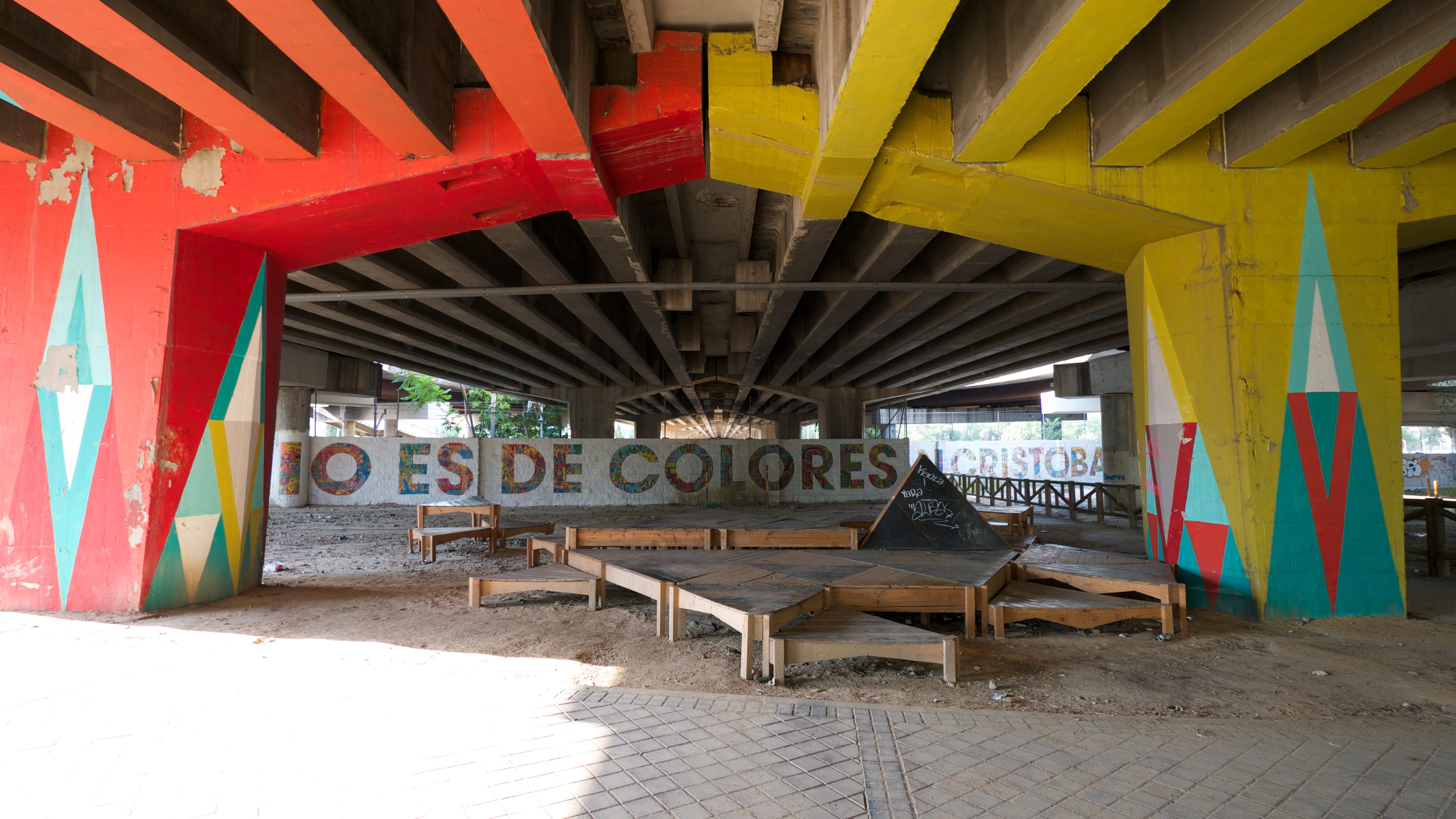 Playground